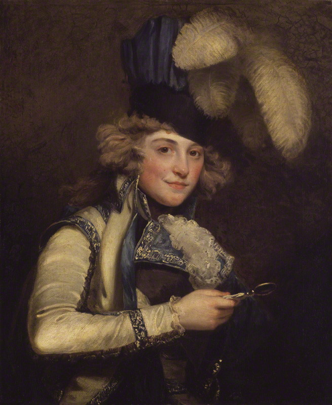 Portrait of Dorothy Jordan